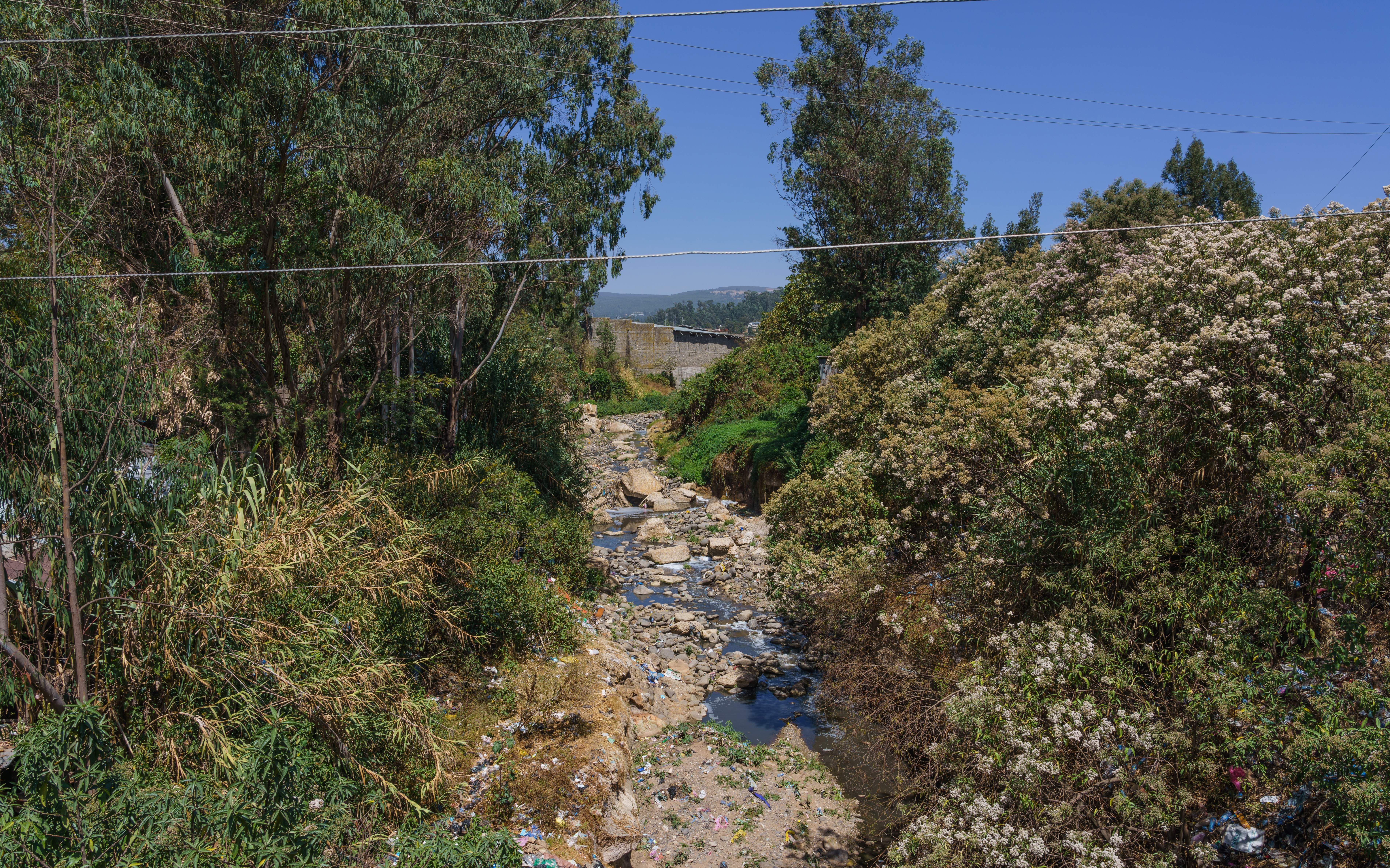 Kebena River in Addis Ababa, Ethiopia